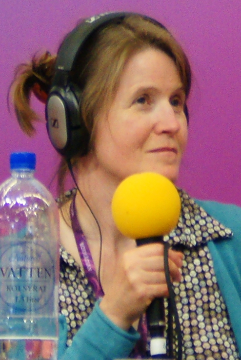 Swedish journalist, writer and radio presenter Louise Epstein at Göteborg Book Fair 2016.